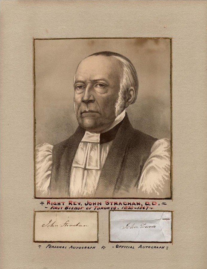 A lithograph showing John Strachan as Bishop of Toronto just two years before his death